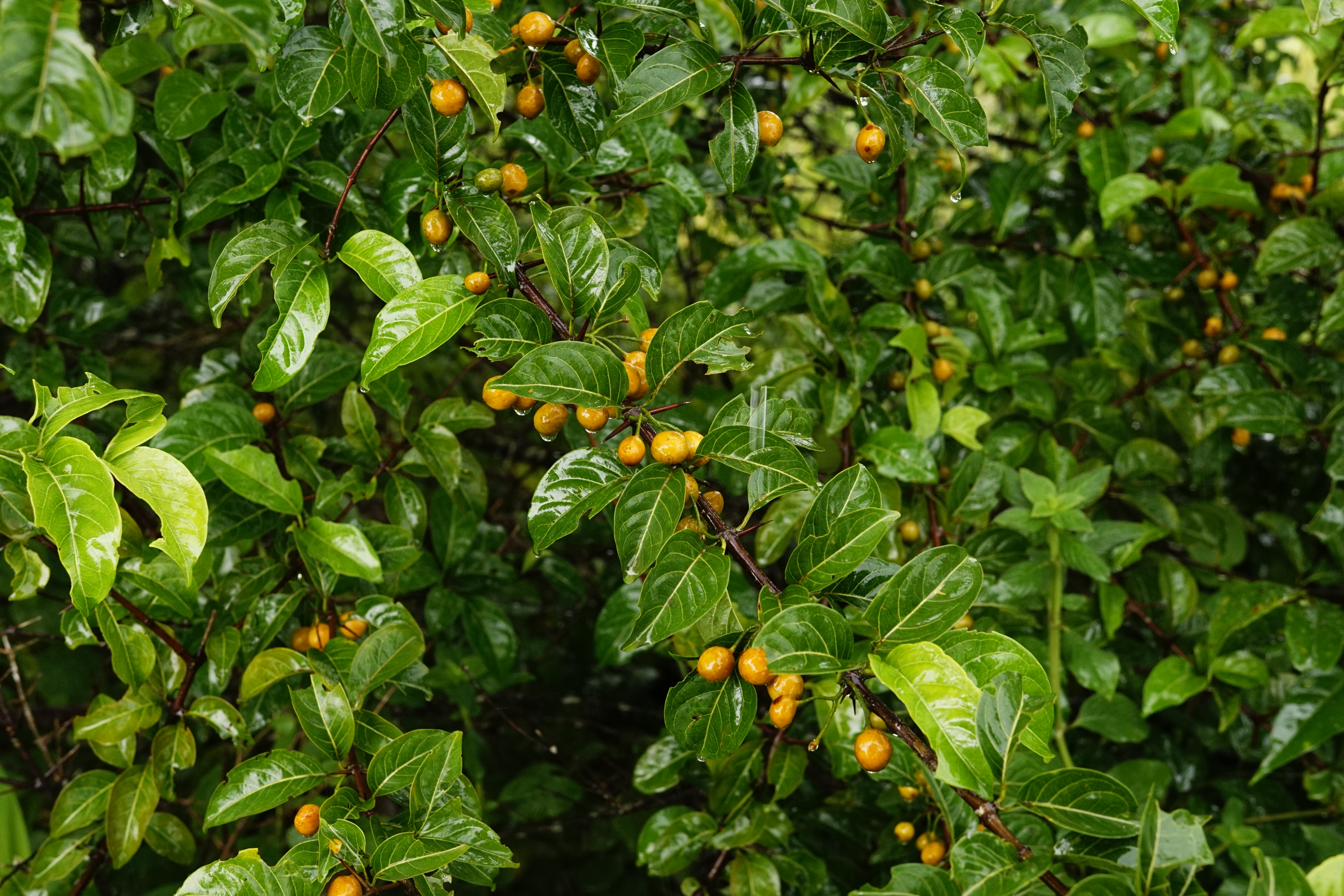 FLORA